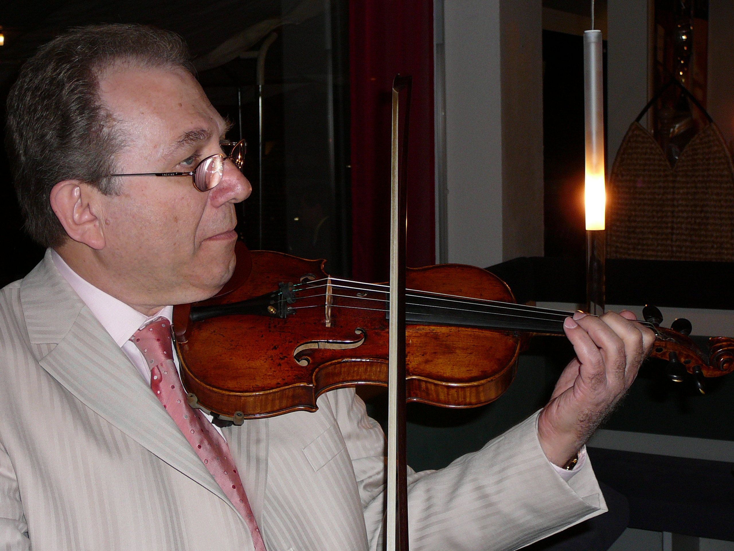 Nathan Mendelssohn (* 1942), uzbekish violinist and professor at Uspensky school in Tashkent (Uzbekistan)